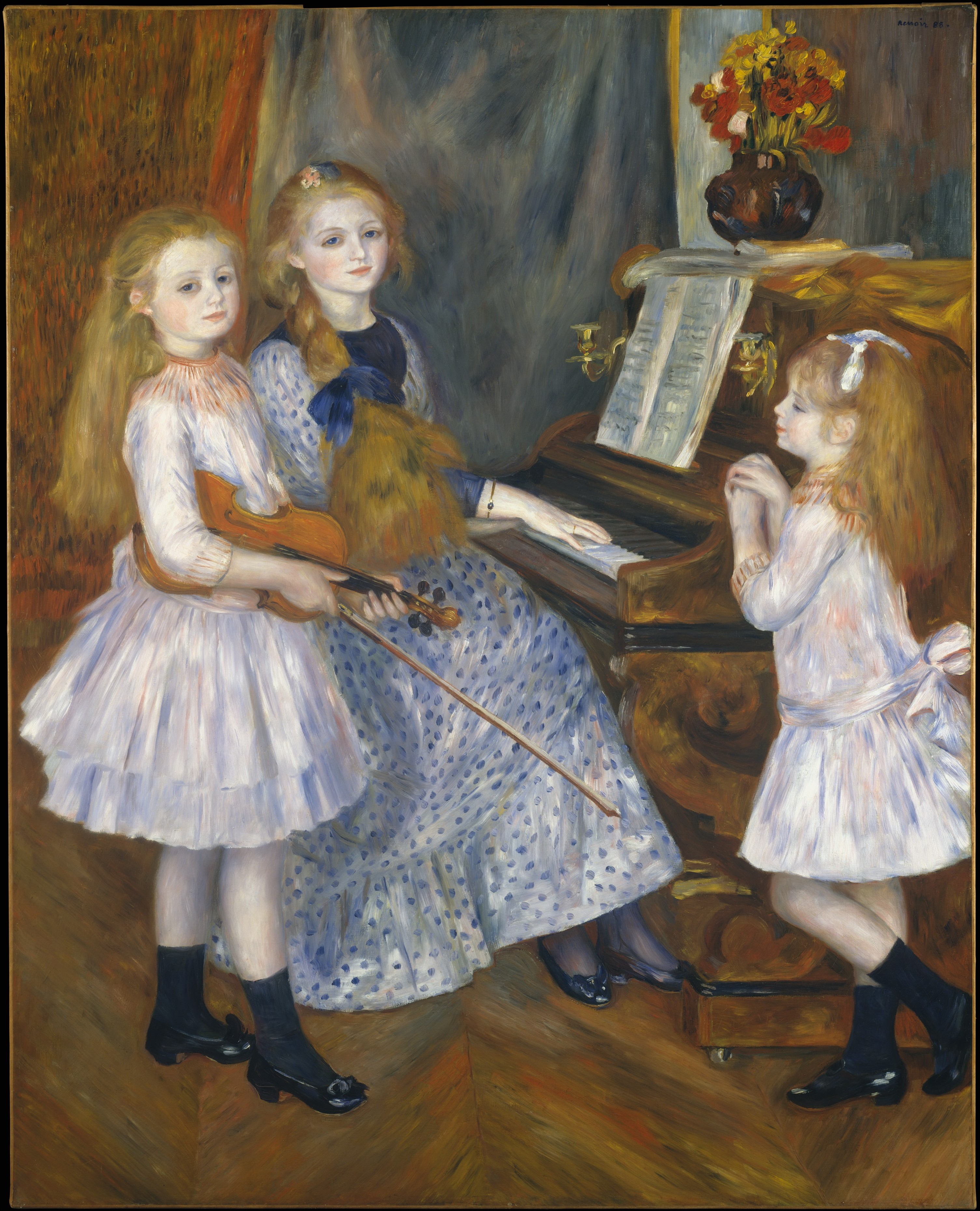 The Daughters of Catulle Mendès: Huguette (1871–1964), Claudine (1876–1937) and Helyonne (1879–1955)